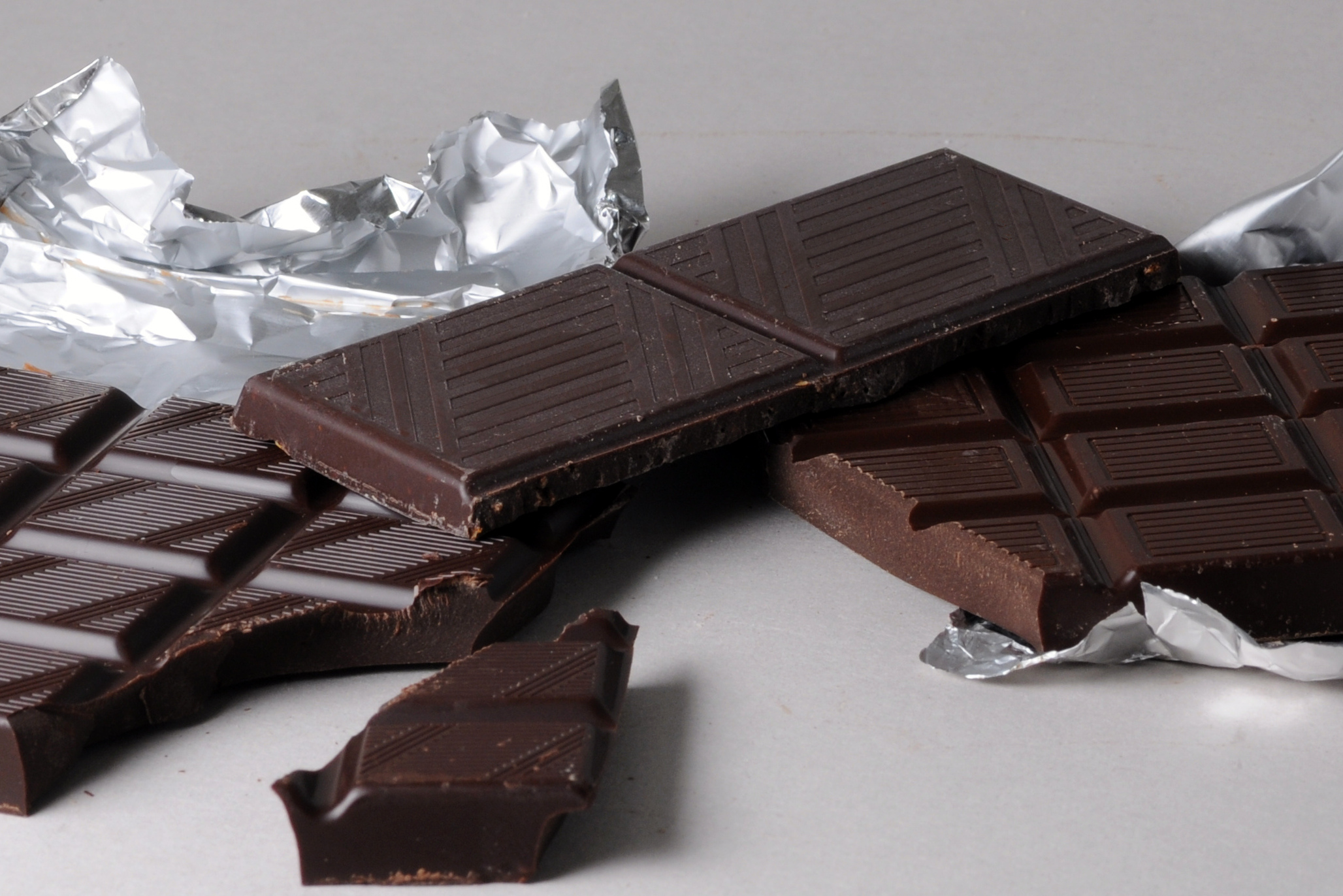 Bars of black Swiss Chocolate. From left to right: About 75% cacao; With chili; Normal black chocolate.